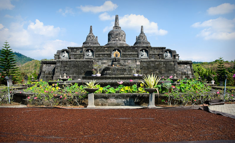 Brahma Arama Vihara, Brahma Arama Vihara Buddhist temple, north Bali Location: Bali